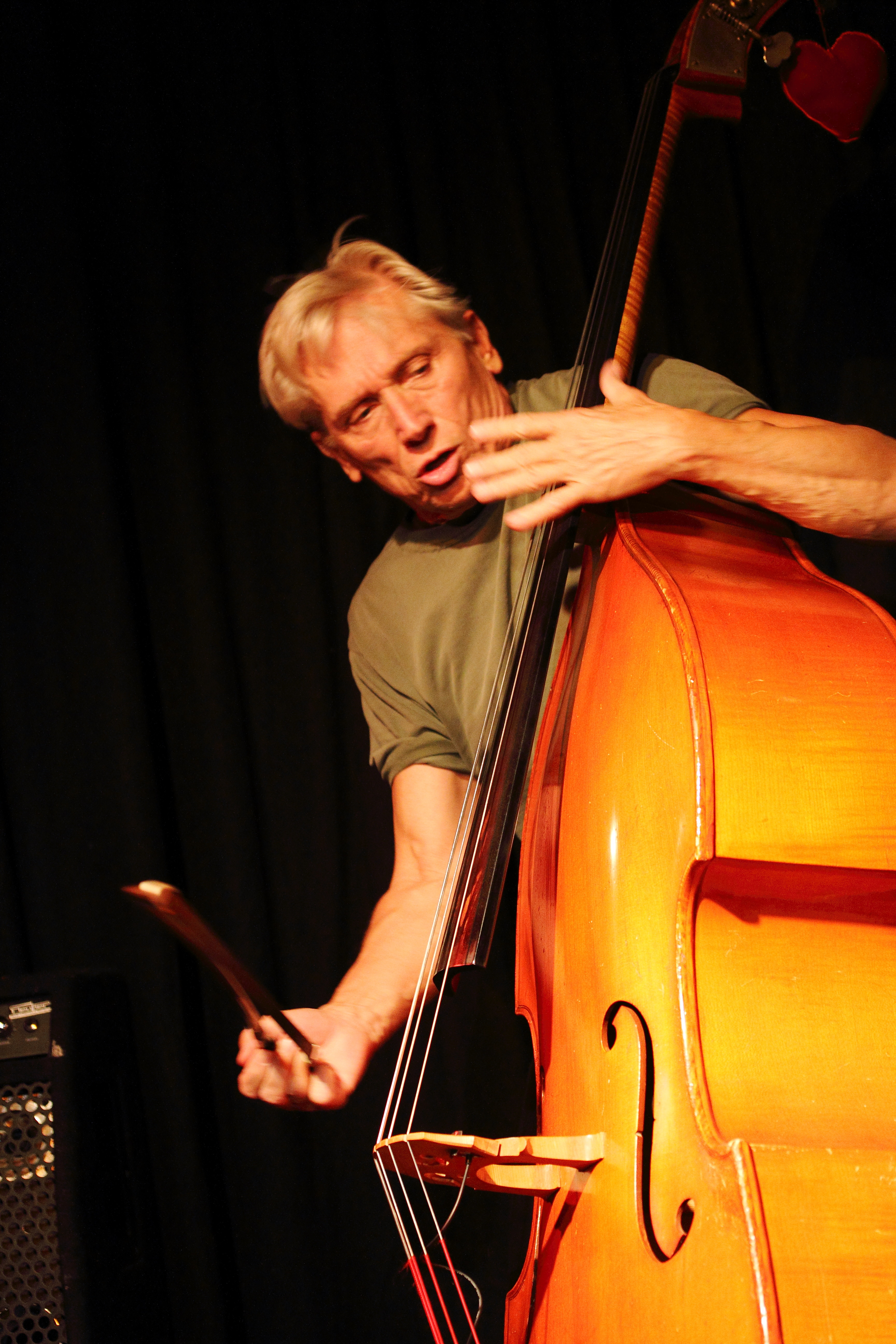 Christoph Winckel in concert with Ruf der Heimat at Club W71Weikersheim, 2015.